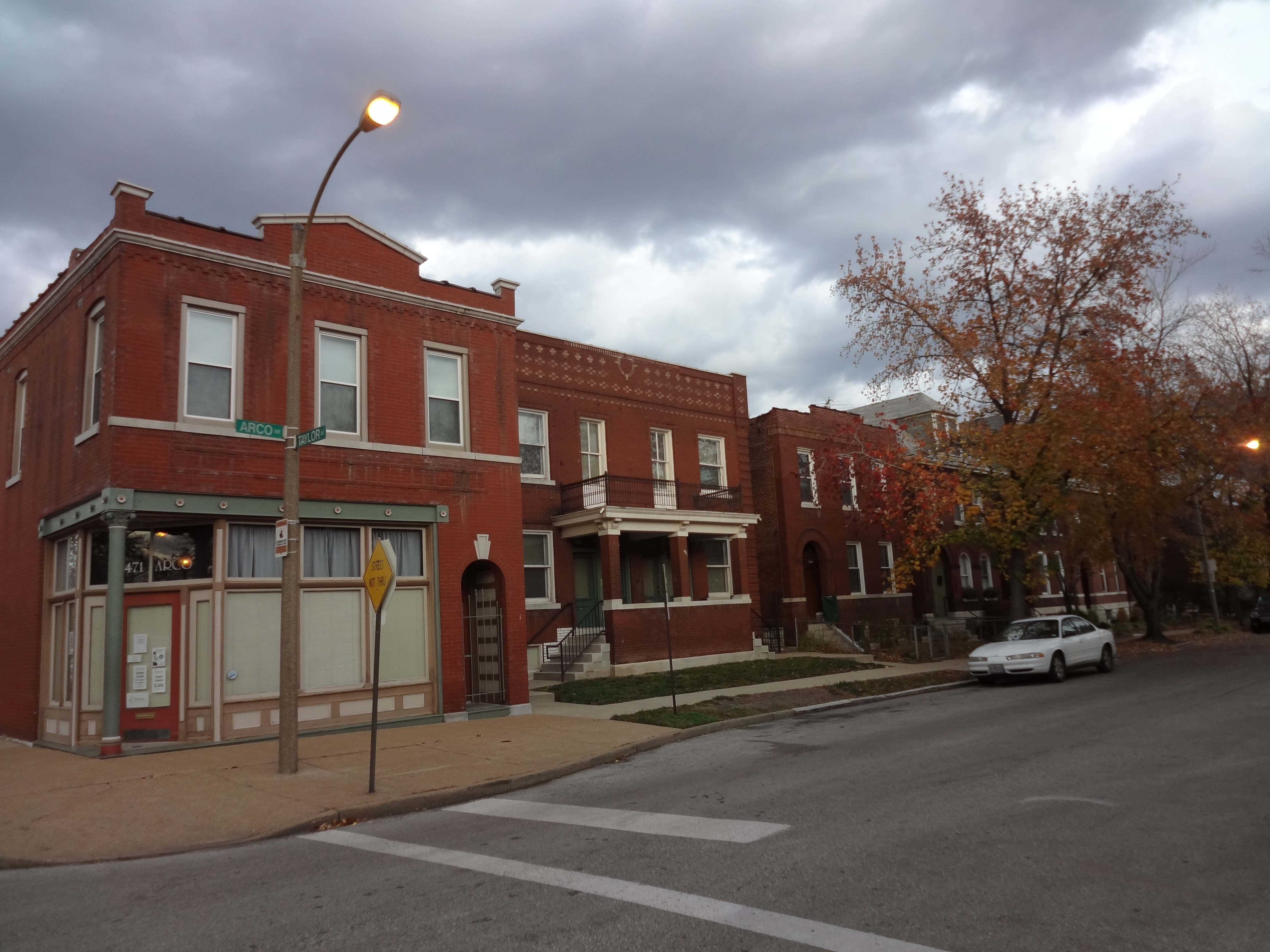 Arco and Taylor